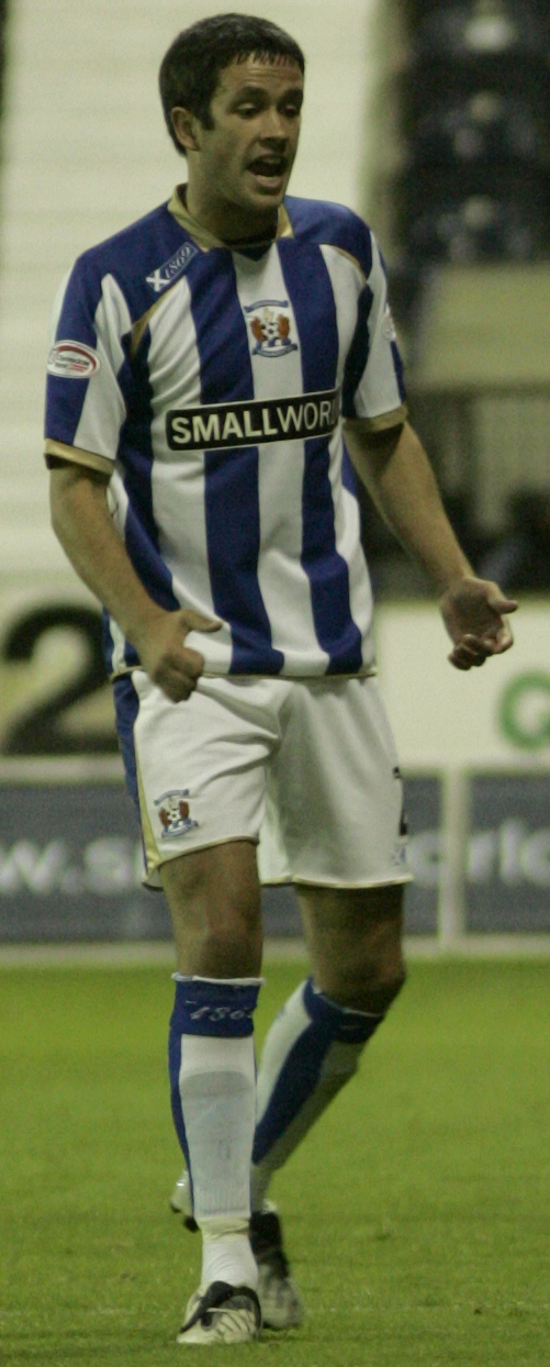 Kilmarnock vs Morton - CIS Cup 2nd Round.